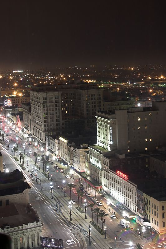 From the 26th floor of the Sheraton Hotel on Canal Street, New Orleans, Louisiana, USA